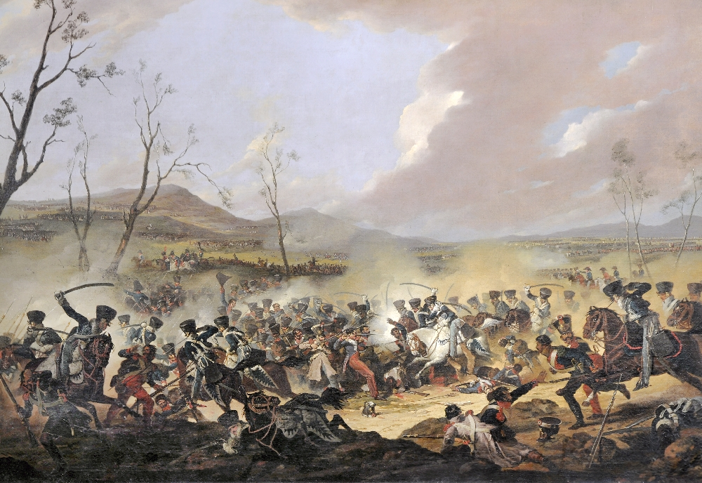 Denis Dighton (1792-1827) painting "The Final Charge of the British Cavalry at the Battle of Orthez" in National Trust, Plas Newydd.